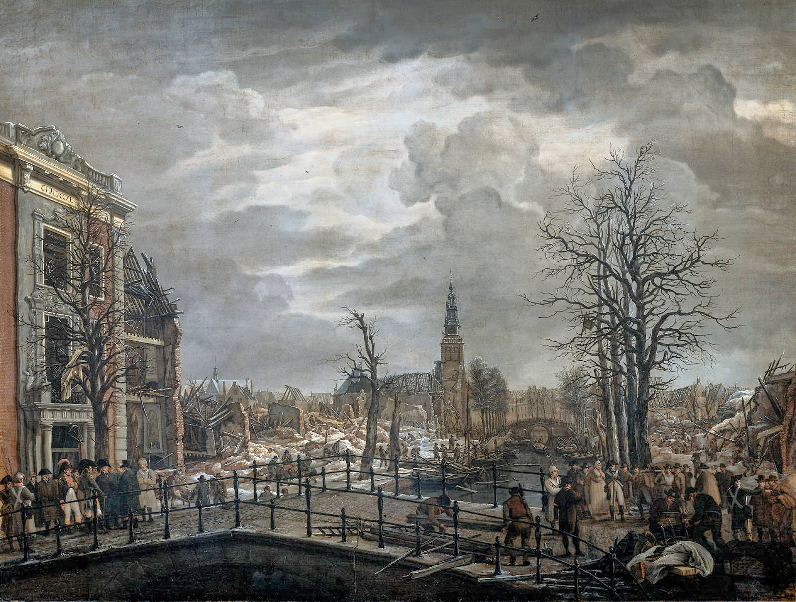 Three days after a devastating explosion of a powder ship on 12 January 1807 in the Dutch town of Leiden, Louis Bonaparte, seen on the left, inspects the damage.